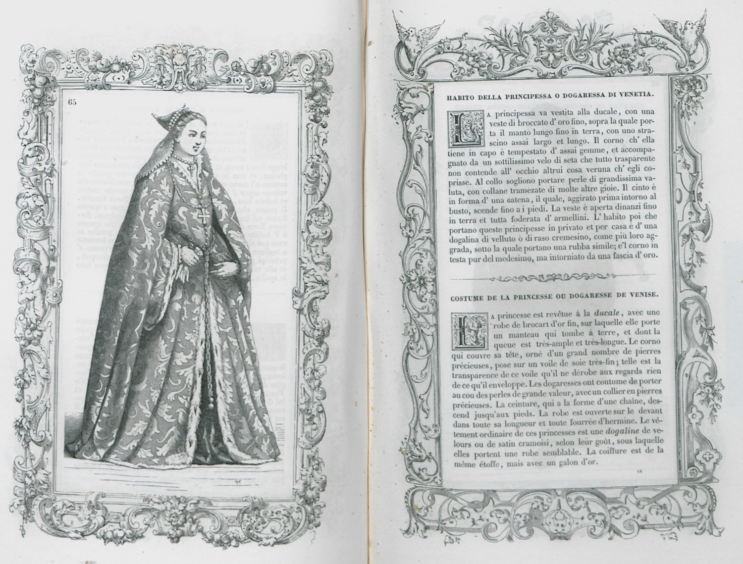 Cesare Vecellio. Costumes anciens et modernes Habiti antichi et moderni di tutto il Mondo di Cesare Vecellio, Paris, Firmin Didot Frères Fils & Cie, M.DCCC.LIX (1859-60)